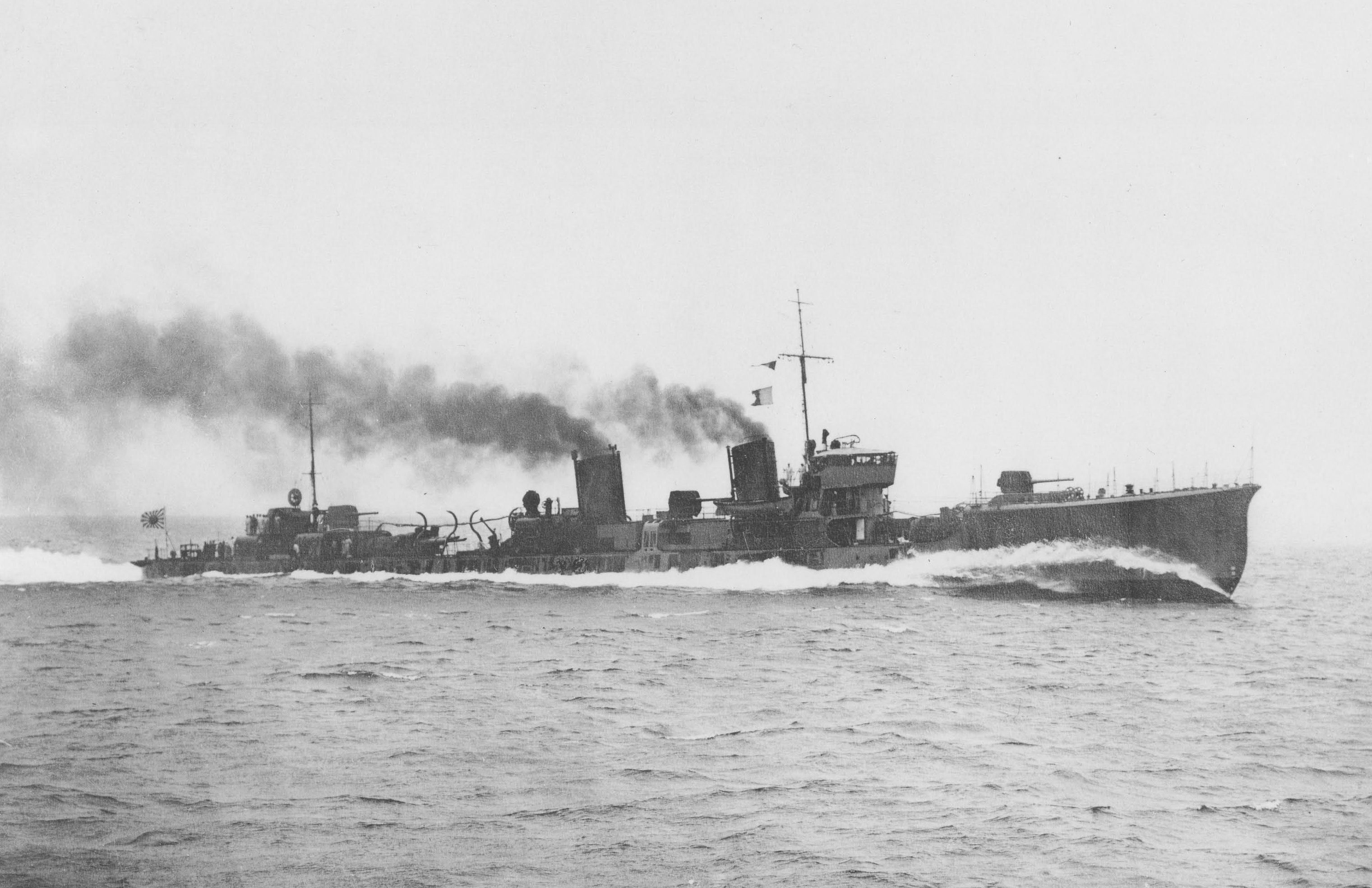 Imperial Japanese Navy destroyer Minazuki, the second Japanese warship to bear that name.